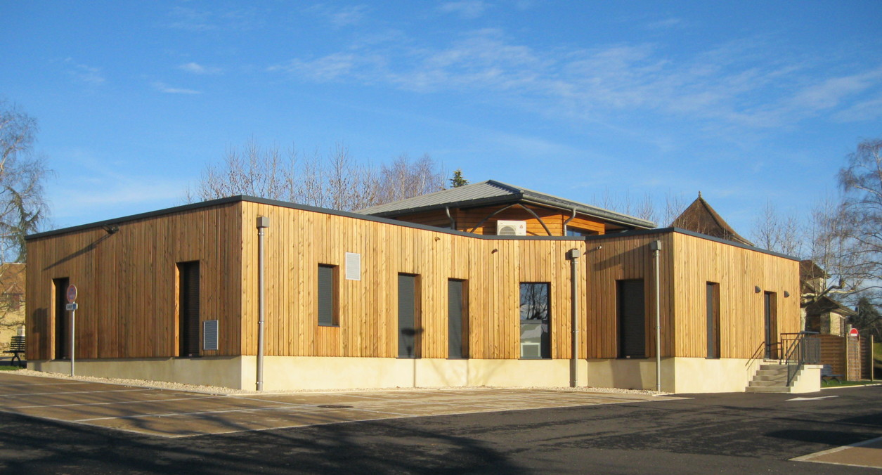 Community health centerAlvignac (Lot, France